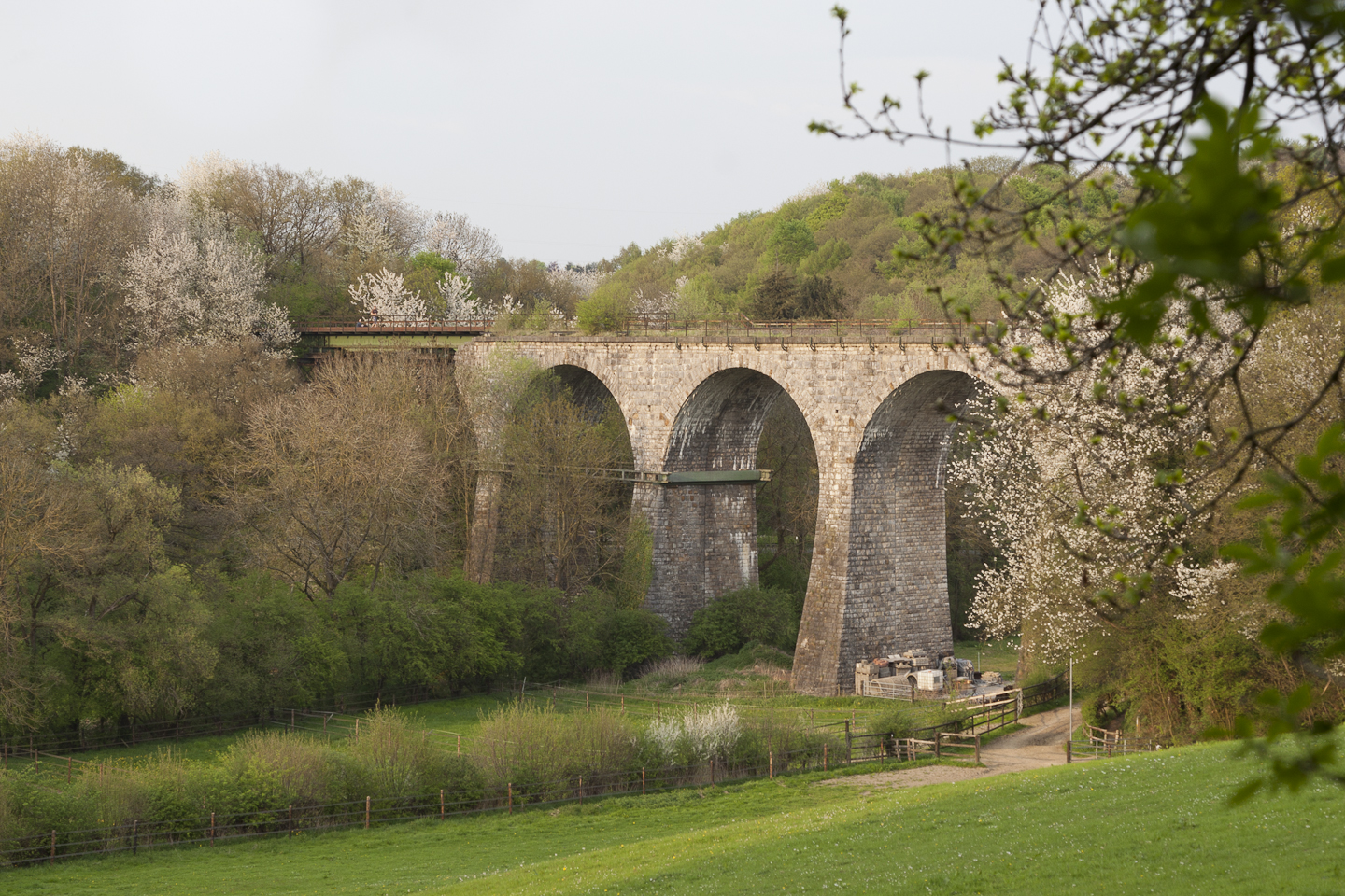 Falkenbachviadukt in May 2013